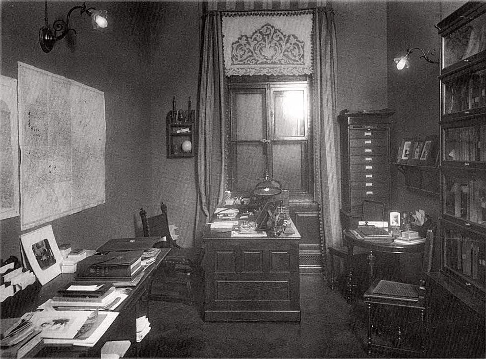 The study room in St.Petersburg flat of Polish lawyer Ljubomir Dymsza